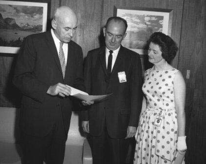 Tecwyn Roberts (and his wife) receiving an award from Dr. Robert R. Gilruth